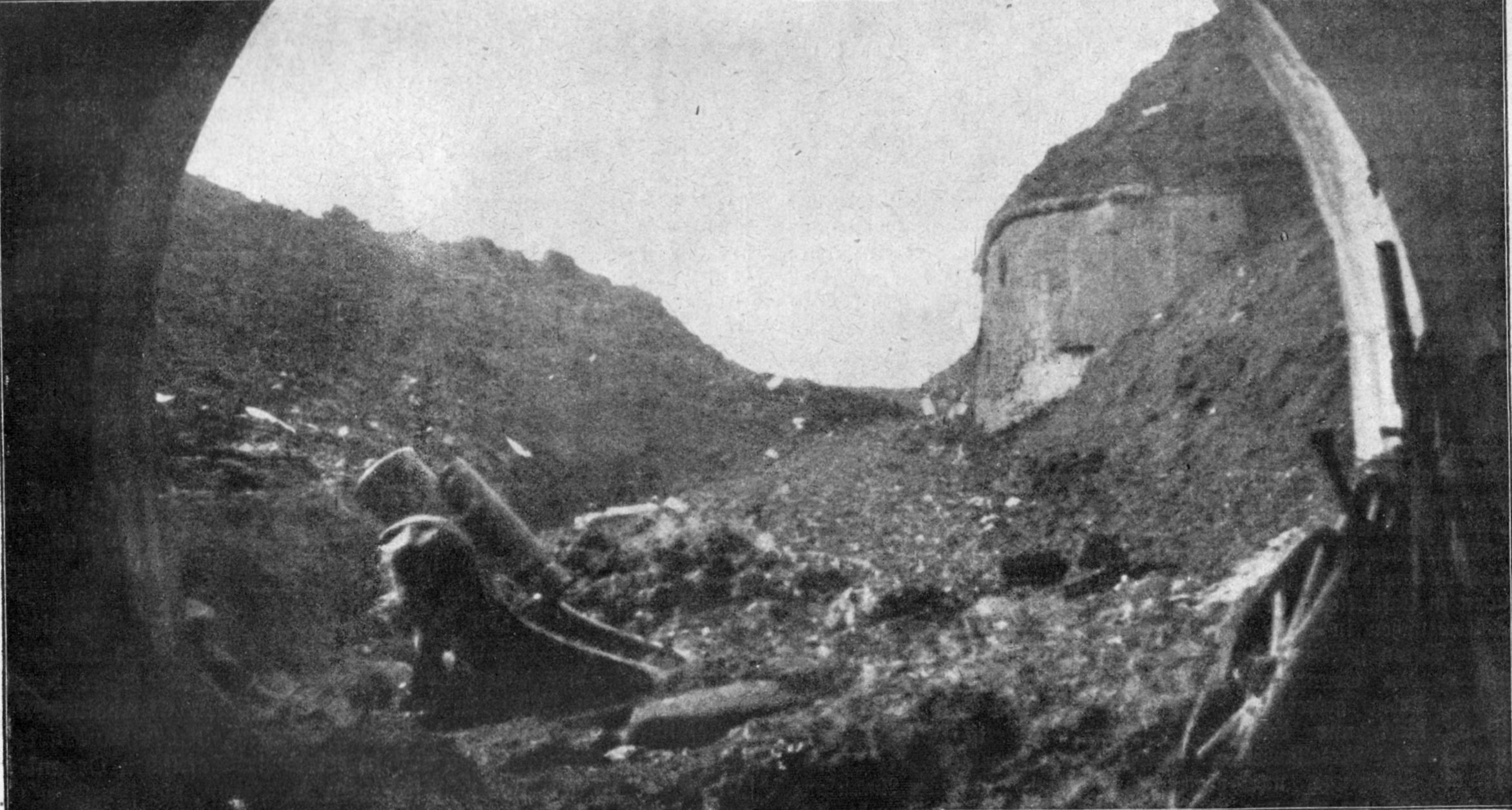 Entrance to Fort Douaumont